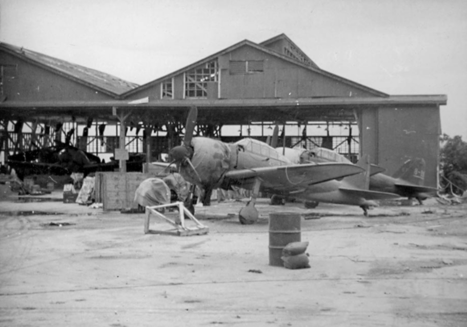 View of a Japanese airfield captured by U.S. forces on Saipan in the Mariana Islands with Mitsubishi A6M5 Zero fighters.